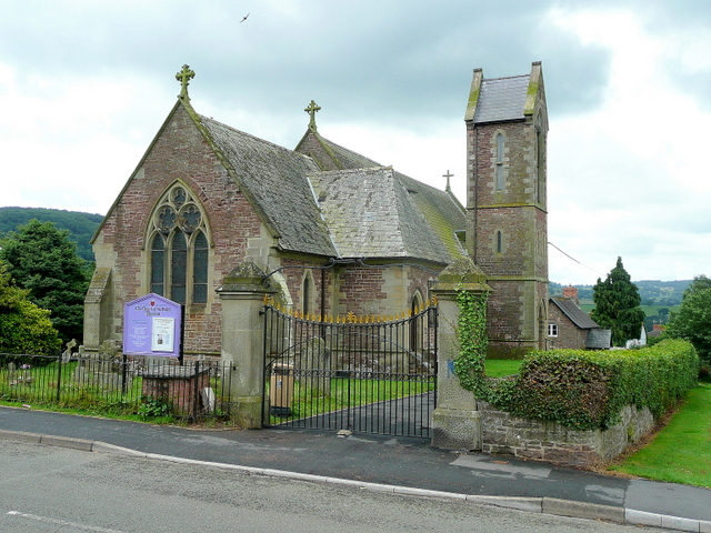 St. James' church, Wyesham What looks like a Victorian building in sandstone in the centre of the suburb of Monmouth to the east of the River Wye.